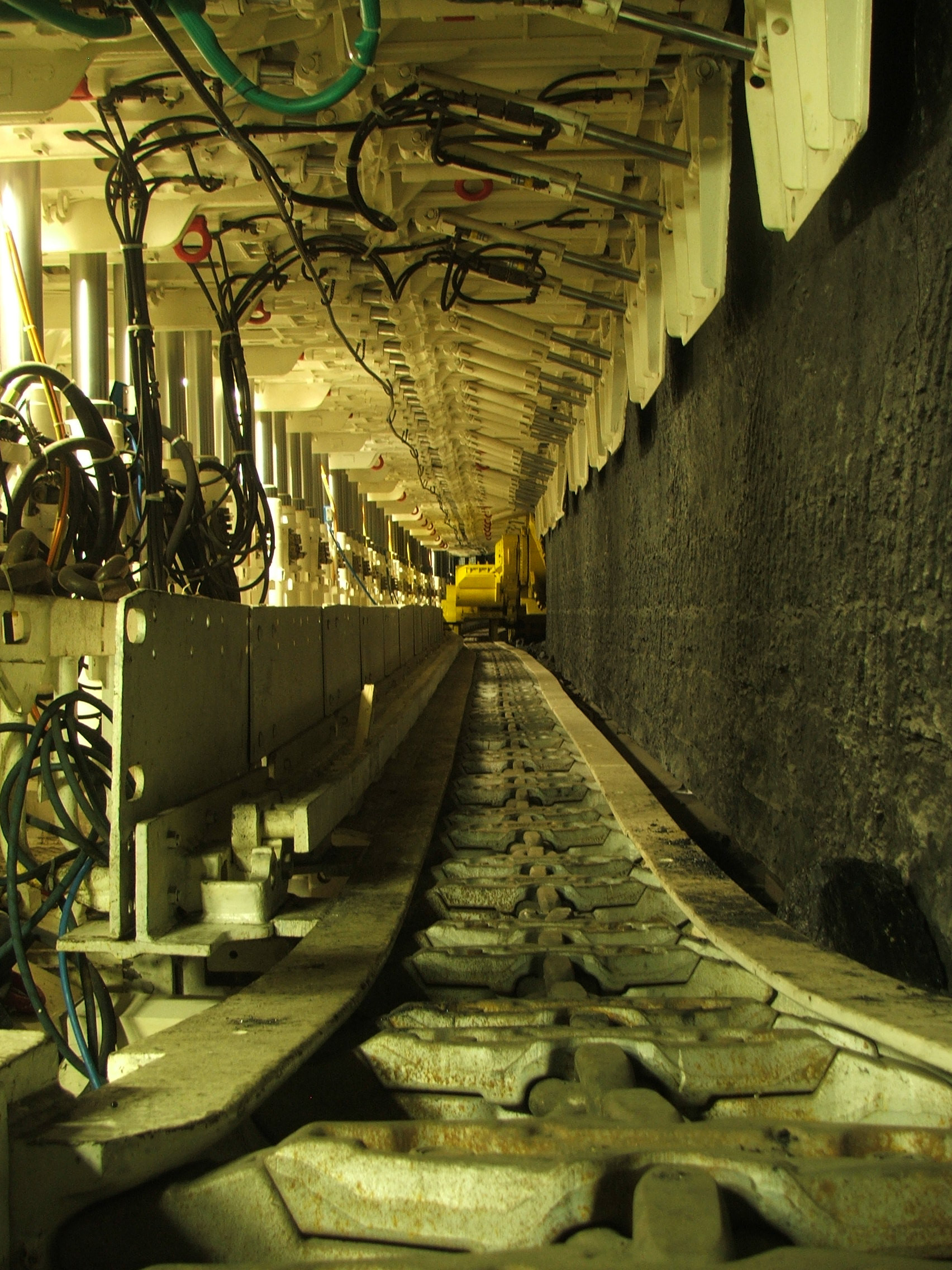 Bergbaumuseum Bochum, a view from the exposition in 16 m depth